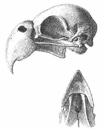 Skull of the Macarene Parrot (Mascarinus mascarin)